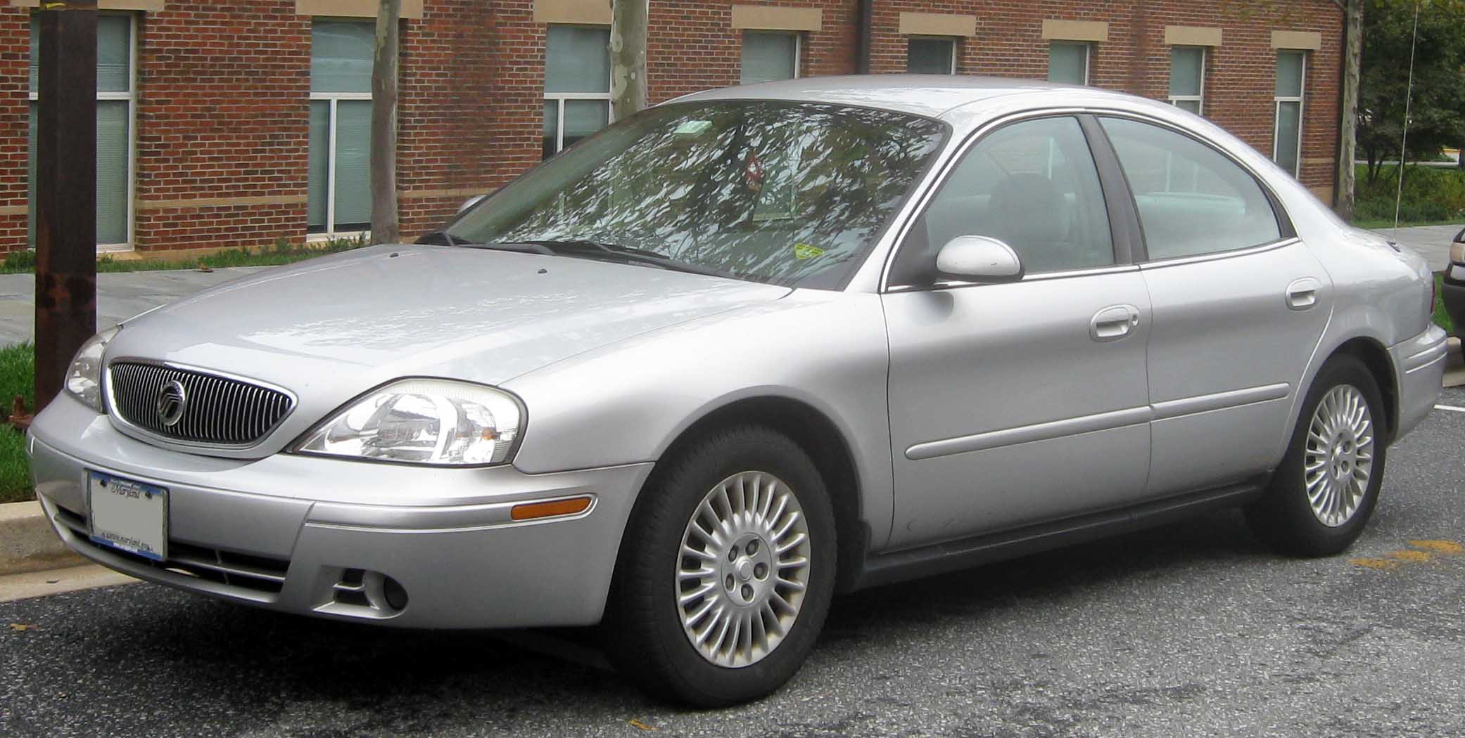 2004-2005 Mercury Sable photographed in College Park, Maryland, USA.